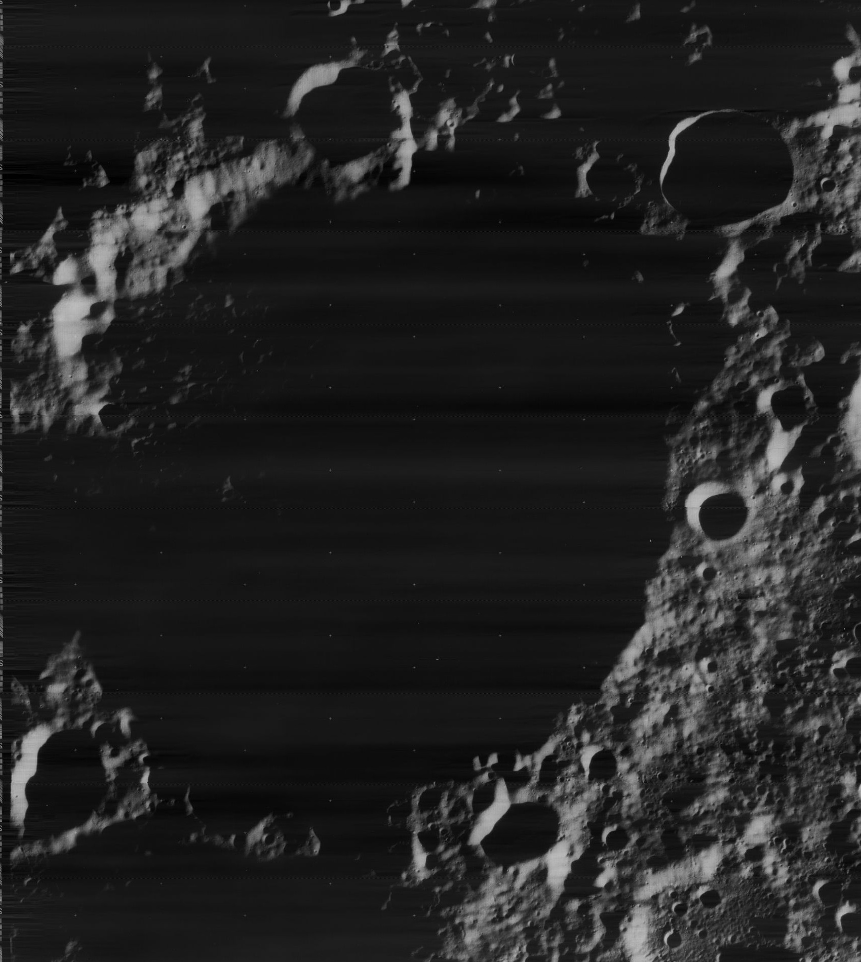 Hermite, near the north pole of the moon. Most of the crater interior is in shadow.